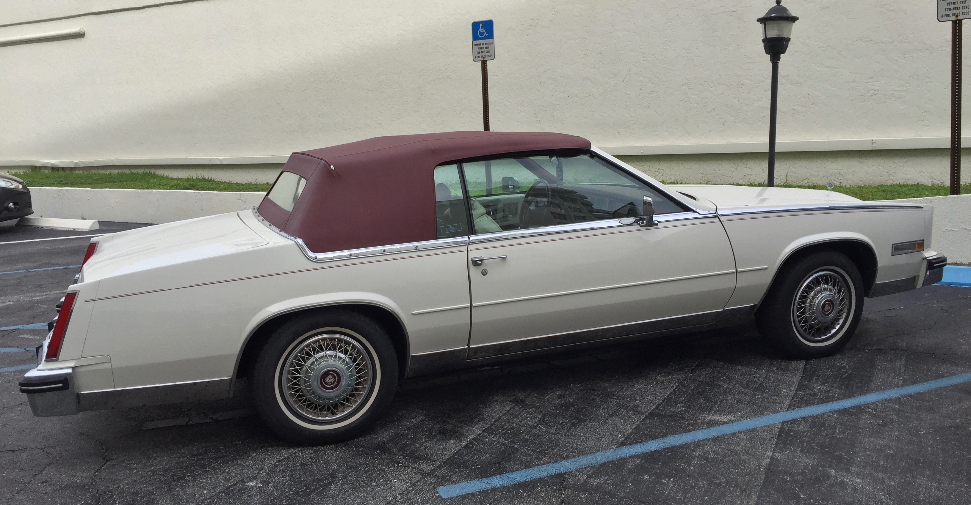 1984 Cadillac Eldorado Biarritz convertible finished in white with red top and a matching white and red interior. Photograph taken in Florida.